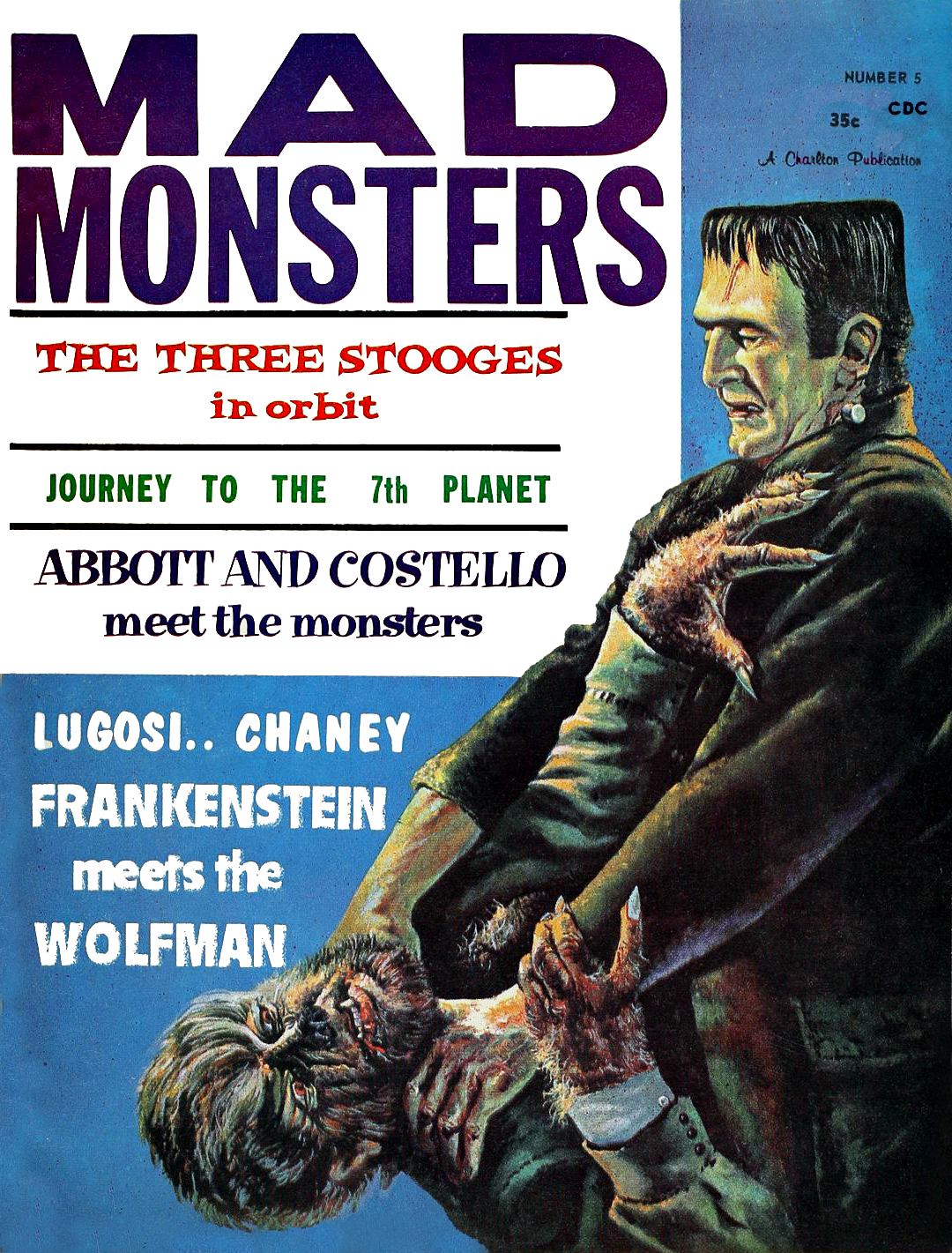 Lugosi ... Chaney ... Frankenstein Meets the Wolfman. Debuting in 1961, Mad Monsters was Charlton's answer to Famous Monster of Filmland. Each issue featured painted covers with black & white interiors running to around 70 pages.